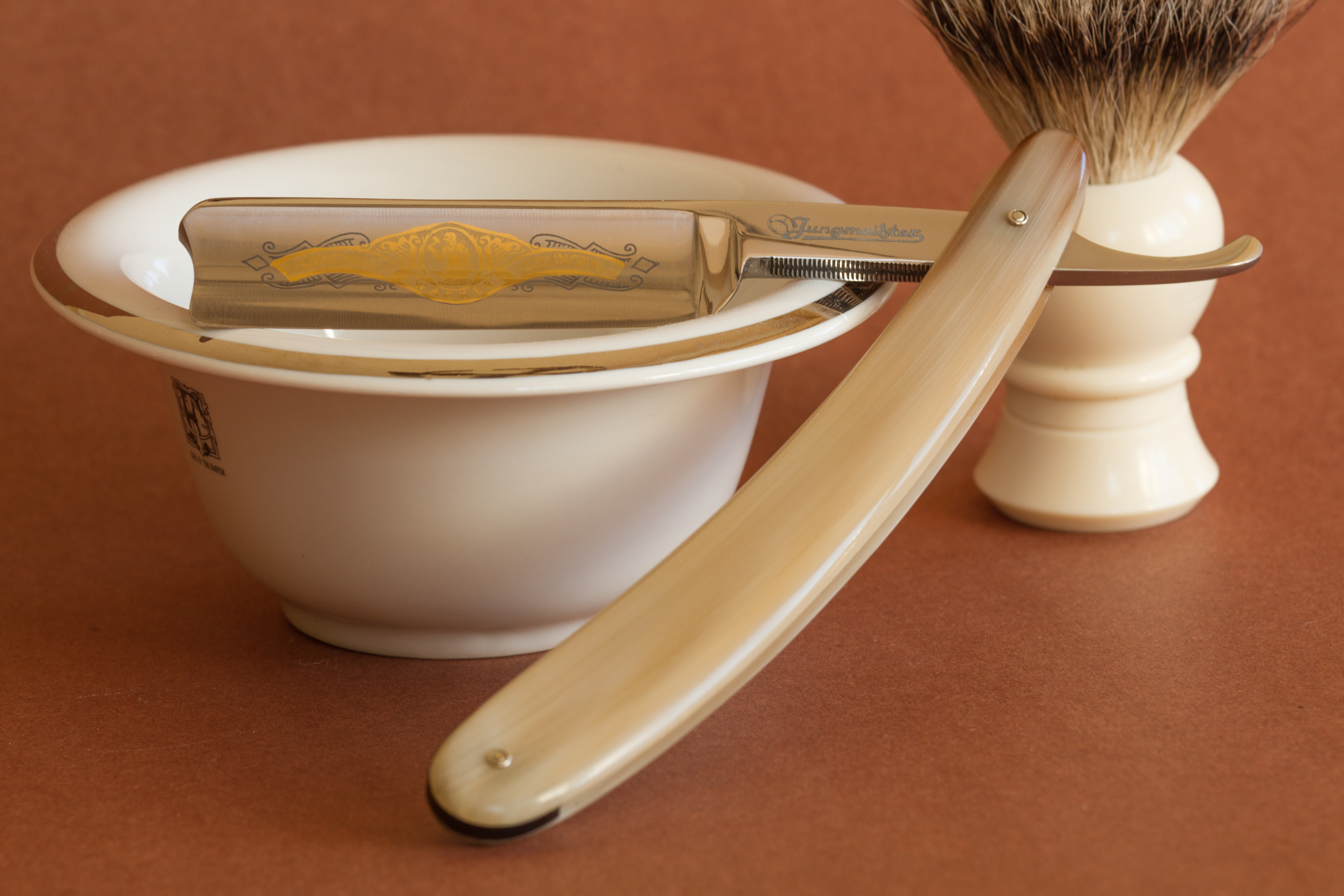 Straight razor “Jungmeister” 7/8 handcrafted by Heribert Wacker, Solingen, with shaving brush and bowl.